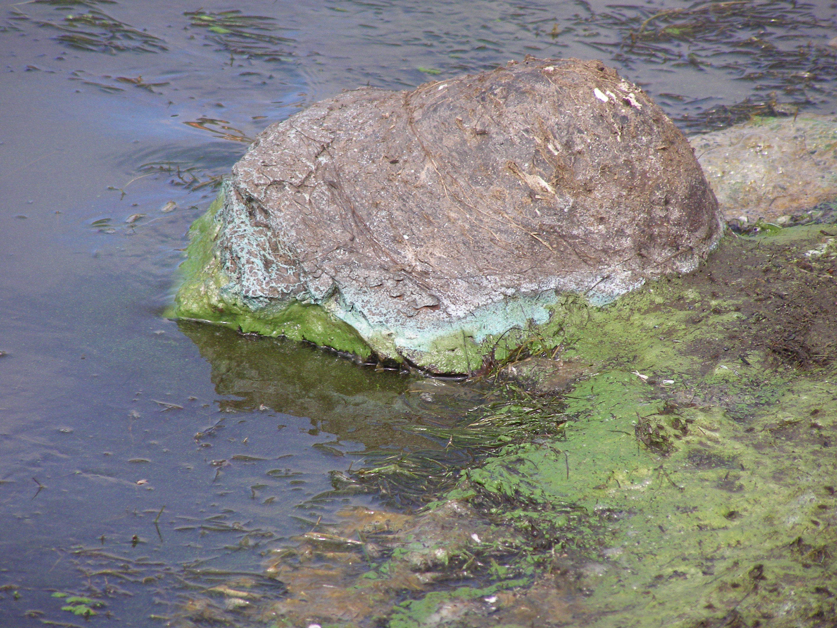 Scum from cyanobacteria, probably Microcystis aeruginosa, washed up on a rock at the east end of Rodeo Lagoon, Marin County, California, September 2008. Photo taken during an algal bloom of Microcystis.